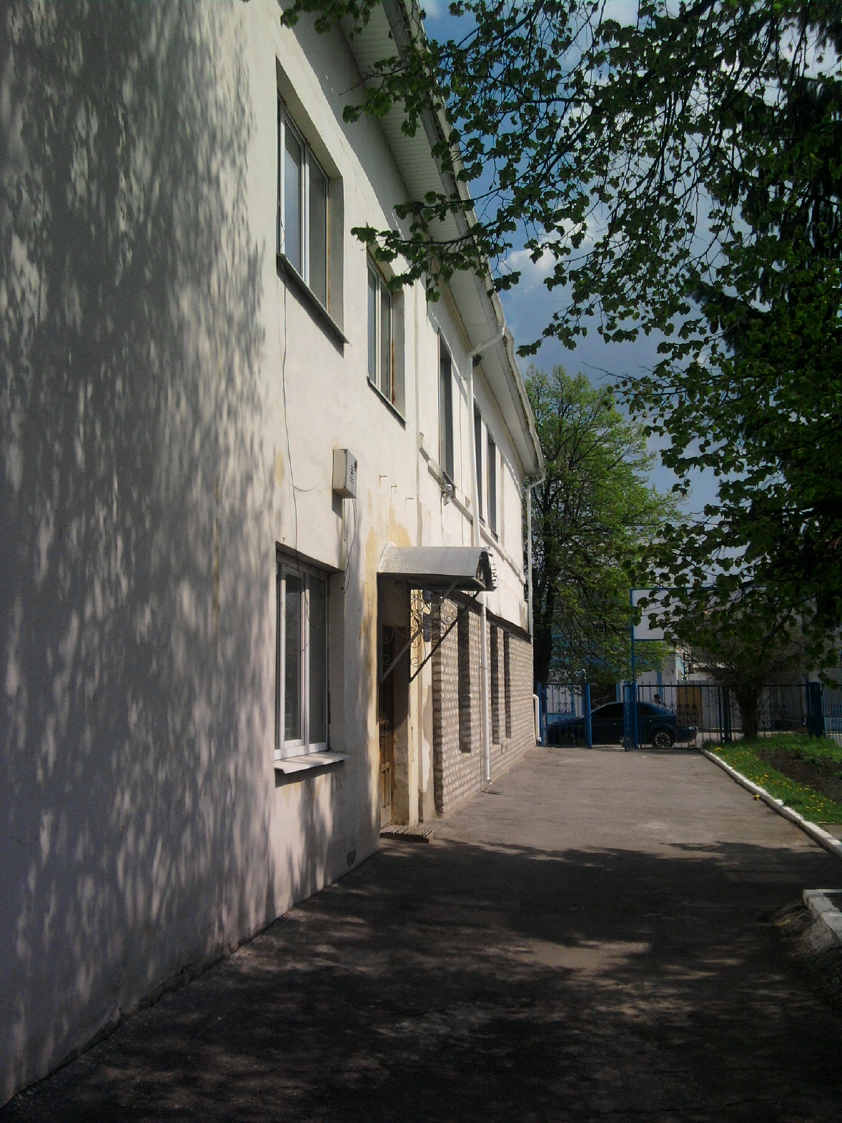 Museum of Izyum